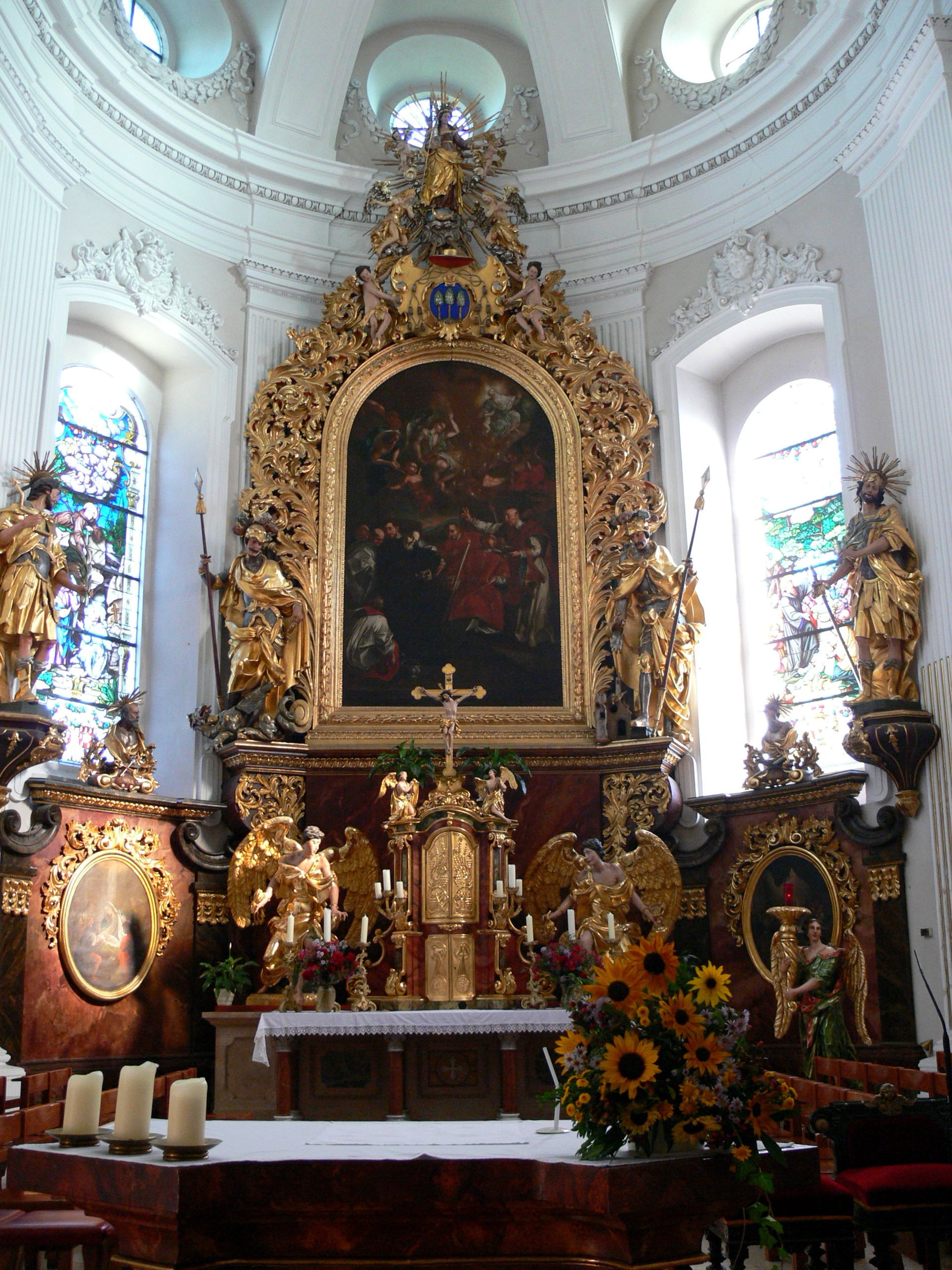 Altmünster (Upper Austria). Saint Benedict parish church: Interior - High altar (1690) by Michael Zürn.